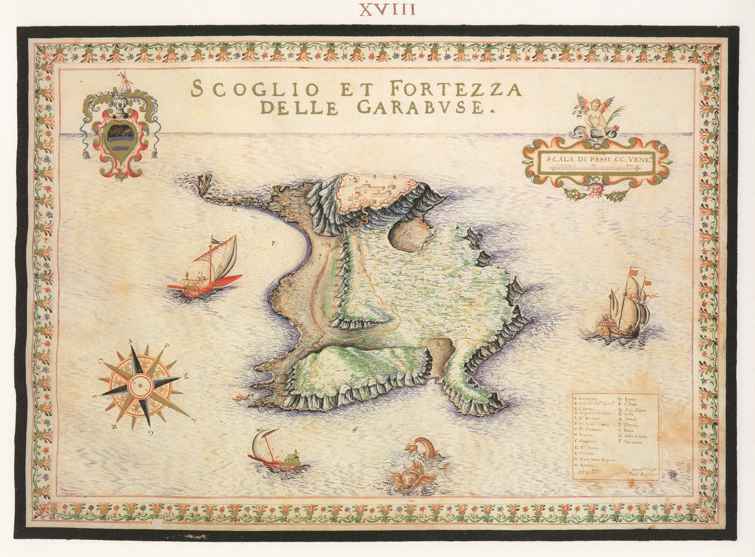 Scoglio, et Fortezza delle Garabuse - Francesco Basilicata - 1618